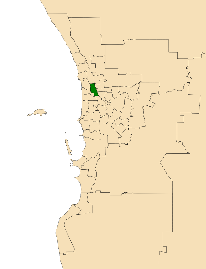 Location of the electoral district of Balcatta in the Perth metropolitan area, Western Australia as of the 2017 WA state election.